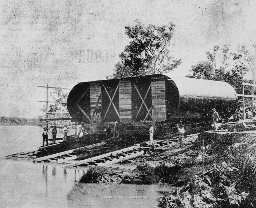 Construction of the Alexandra Railway Bridge at Rockhampton, 1898 First caisson of the railway bridge over the Fitzroy River, ready for launching.